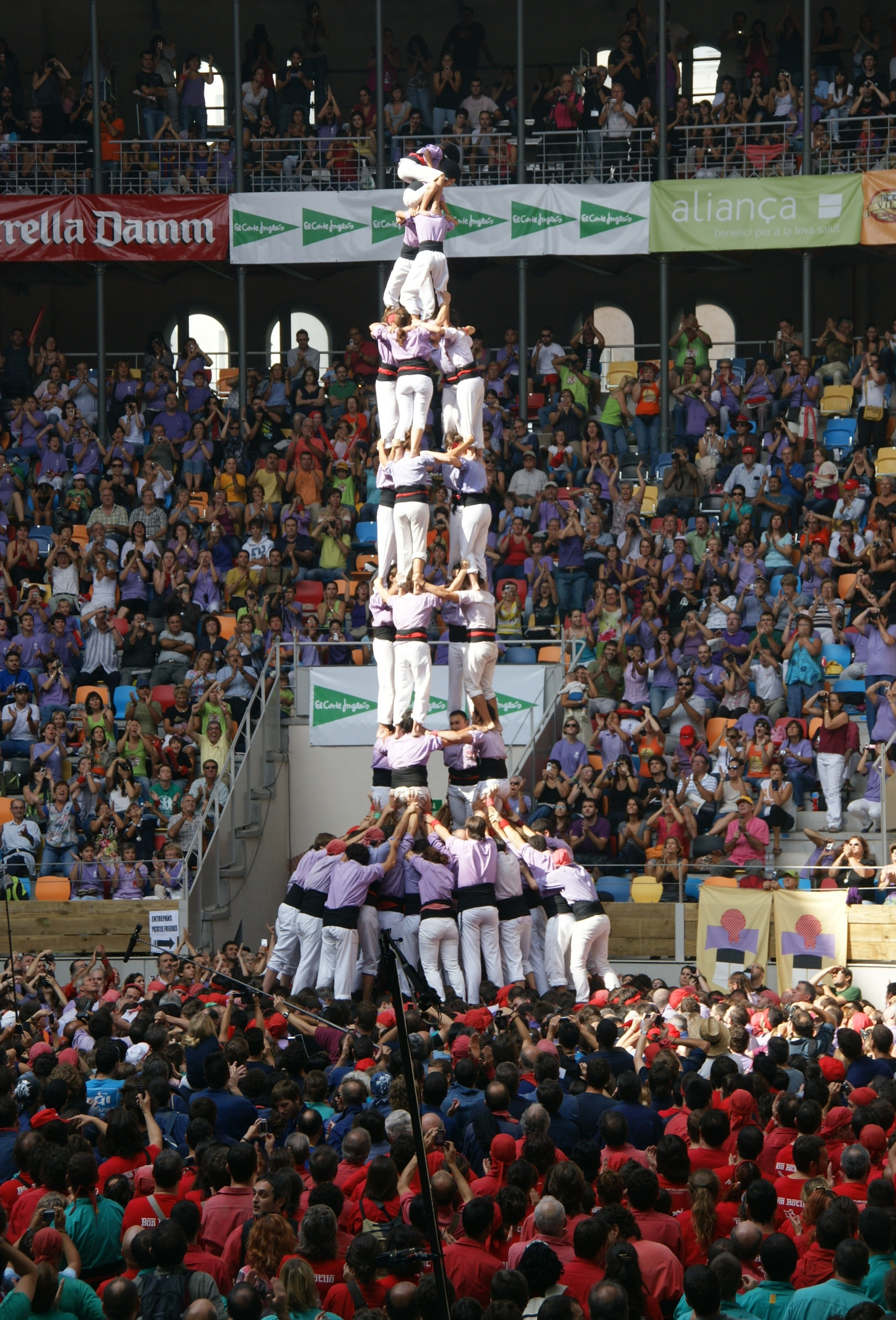 4 de 9 amb folre (casteller human tower) from Colla Jove Xiquets de Tarragona.